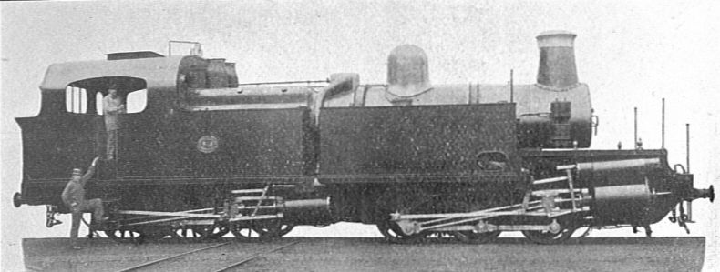 Articulated Compound Tank for the Belgian State Railways